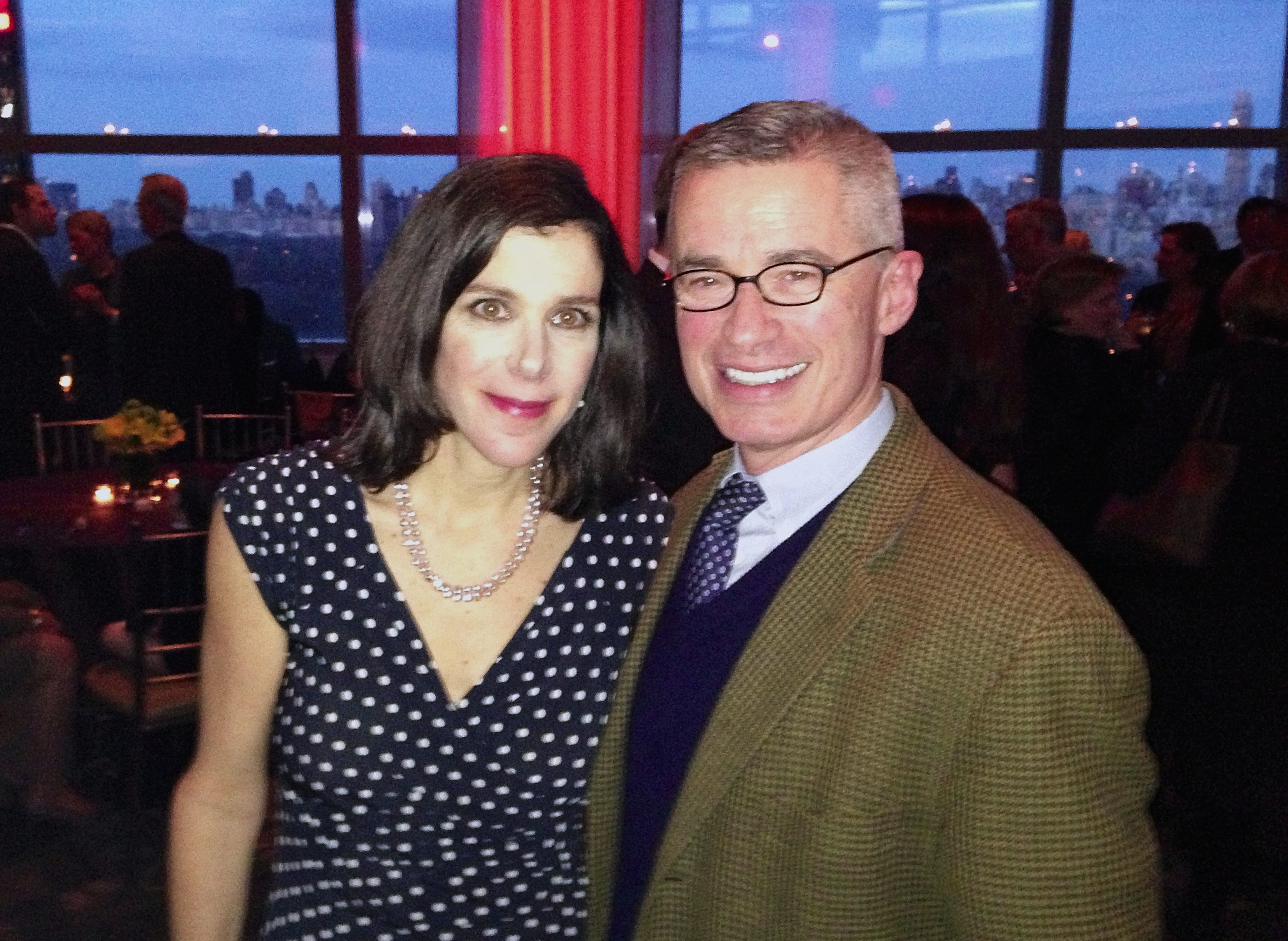 Filmmaker Alexandra Pelosi with former New Jersey Governor Jim McGreevey at the Time-Warner Center for the screening of her HBO documentary about McGreevey, Fall to Grace